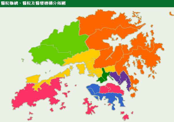 Map of Hong Kong Hospital Cluster